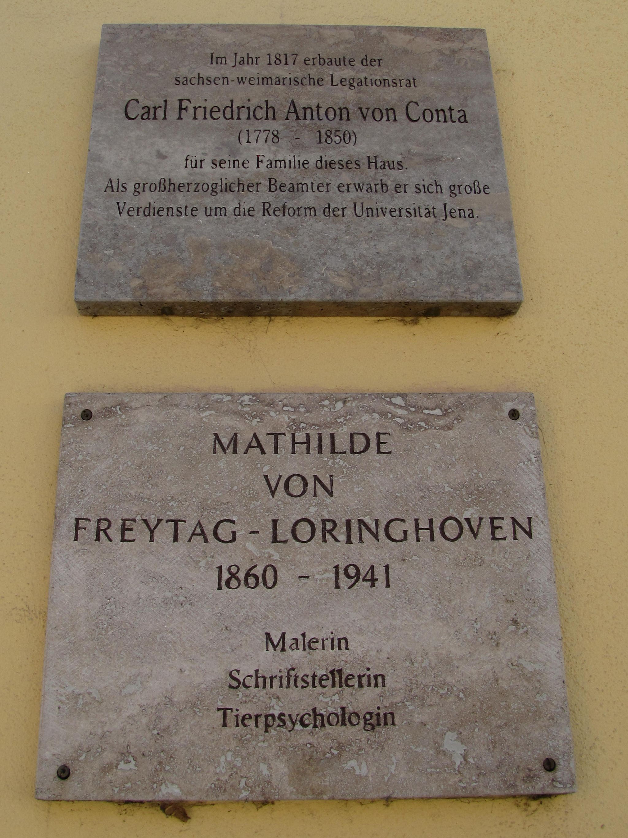 Plaque in Weimar, Marienstr. honoring Mathilde Freiin von Freytag-Loringhoven and Karl Friedrich Anton von Conta